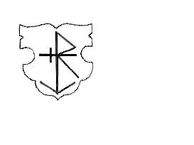 Shield with the house mark of Johan von Cappelen, Wildeshausen, Germany, 1617